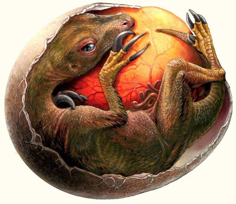 Therizinosaur egg, based on fossils form China. Also published in the following paper:[1]